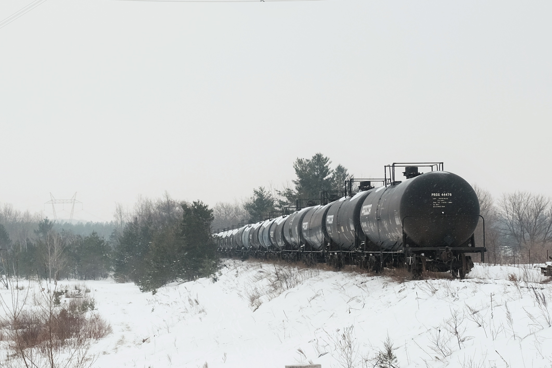 A string of DOT-111 cars on the former Canadian National Penetang spur in Essa Township, Ontario, Canada awaiting their trip to be recycled.